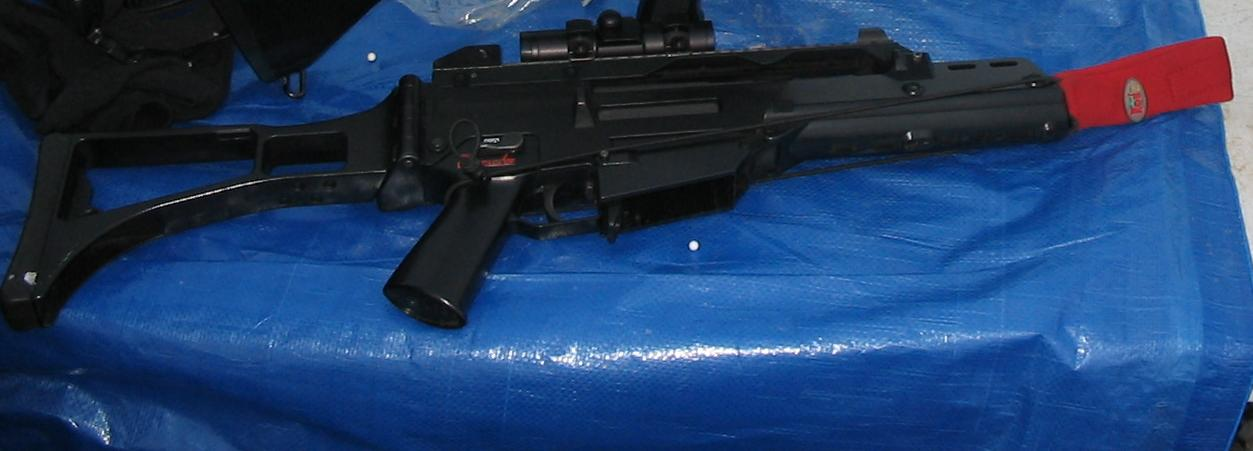 An airsoft H&K G36c, also known as the mk36c in airsoft, is externally a close replica of the real gun, with a barrel bag placed over the muzzle in case of accidental firing. This gun is typically used for close quarter combat (CQC) due to its real steel counterparts use in that role.